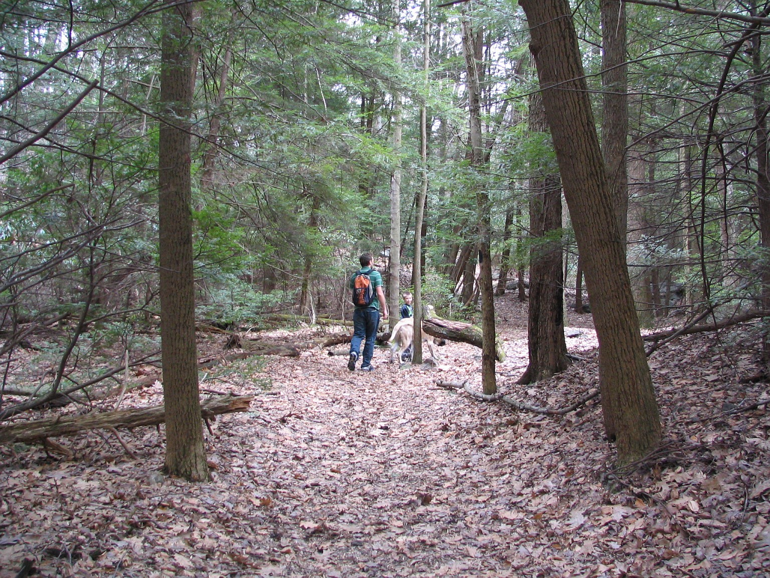 Walking trail located in Ohiopyle State Park in Pennsylvania. Clinton N. Godlesky. From personal collection.